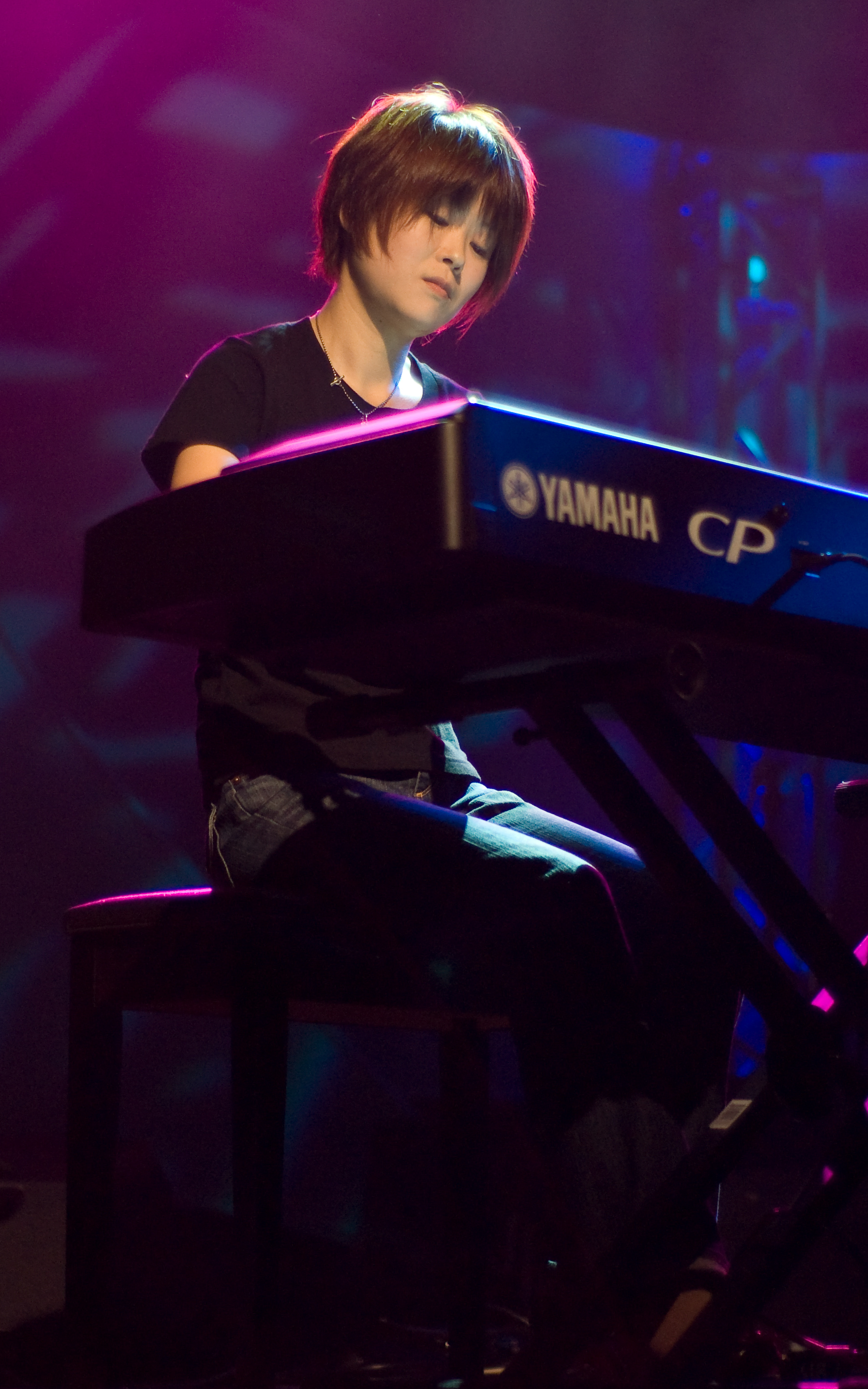 Crop of a photo of Kumi Tanioka playing a piano solo at FFXI Fan Festival 2007